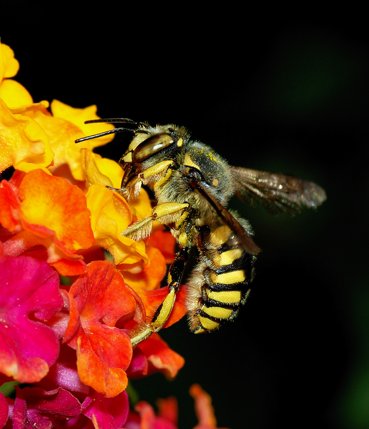 Solitary bee (Anthidium florentinum)